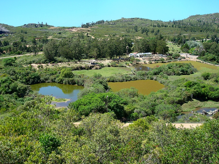 Reserva de Flora y Fauna del Pan de Azúcar (Nature Reserve), Maldonado Department, Uruguay.